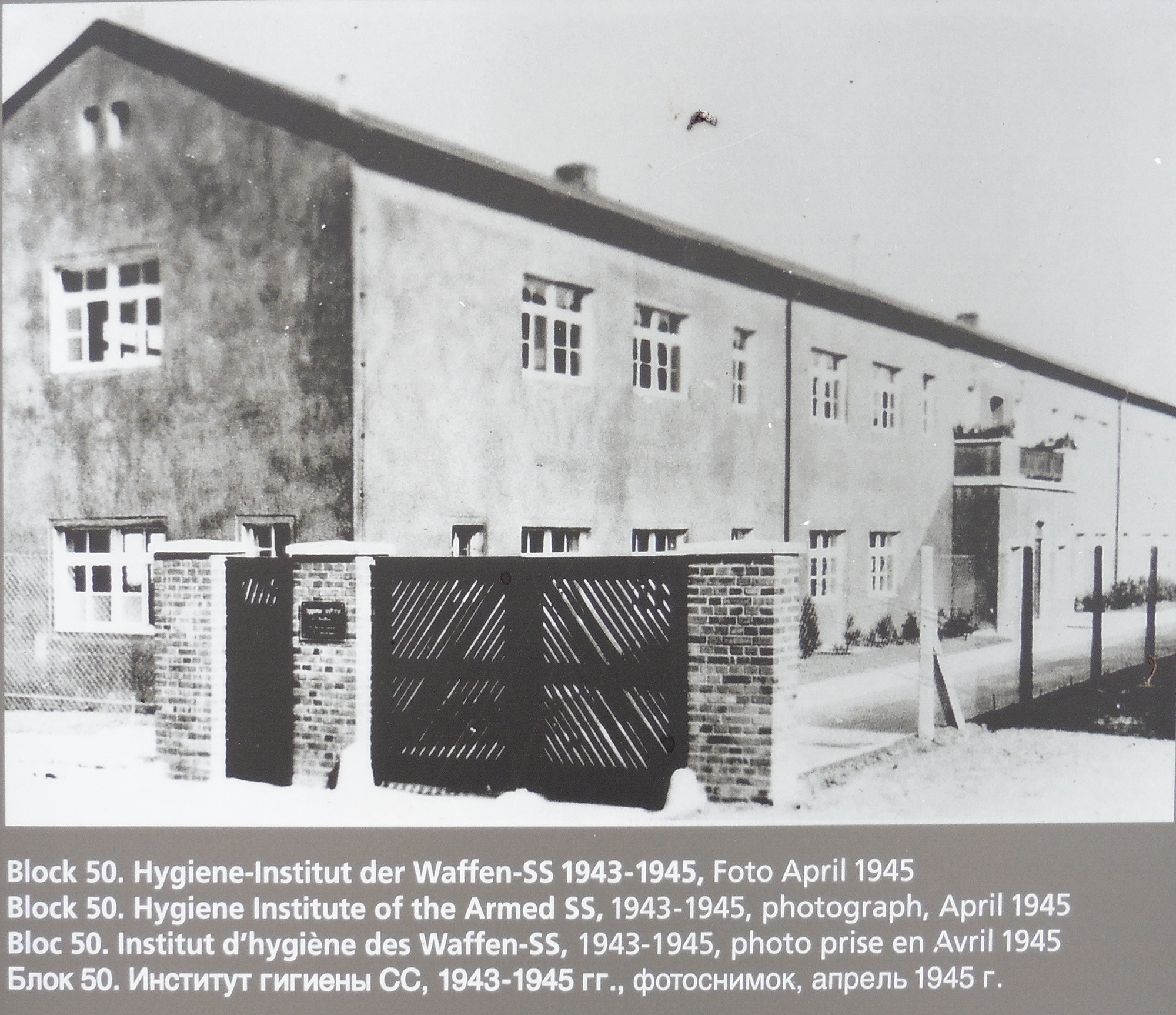 Block 50: Hygiene Institute of the Armed SS in the Buchenwald concentration camp 1943-1945. Photograph in the Buchenwald Memorial from April 1945.